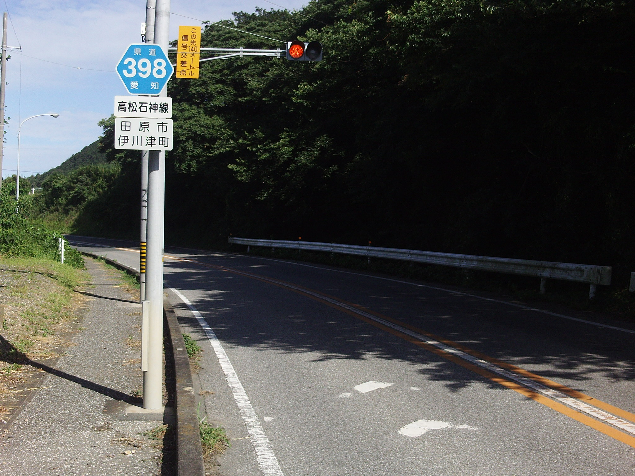 The Aichi Prefectural Road Route 398 in Ikawazucho, Tahara City